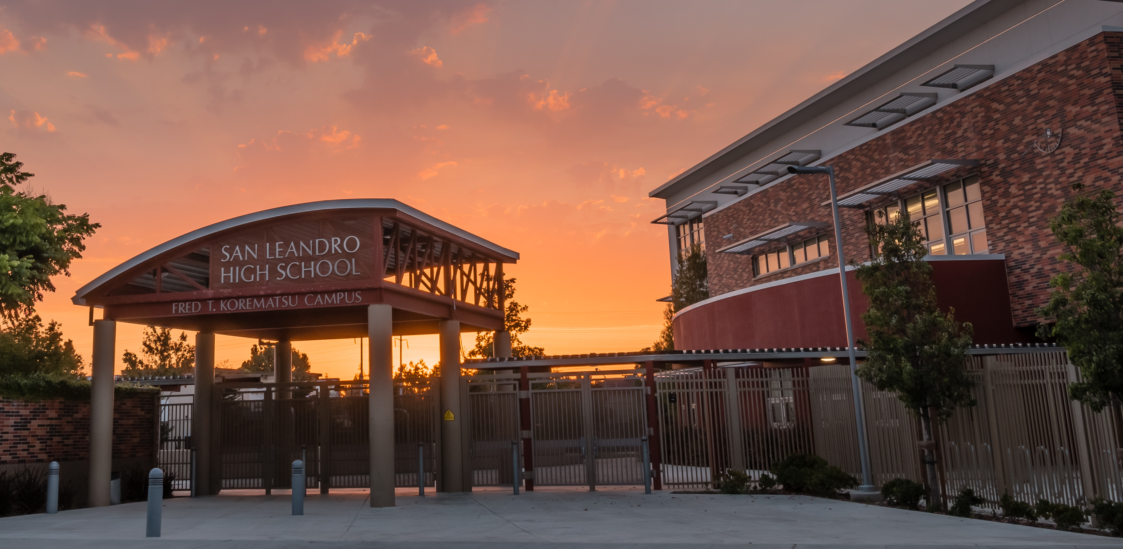 San Leandro High School Over Sunset. "Fred Korematsu Campus", after japanese american activist Fred Korematsu